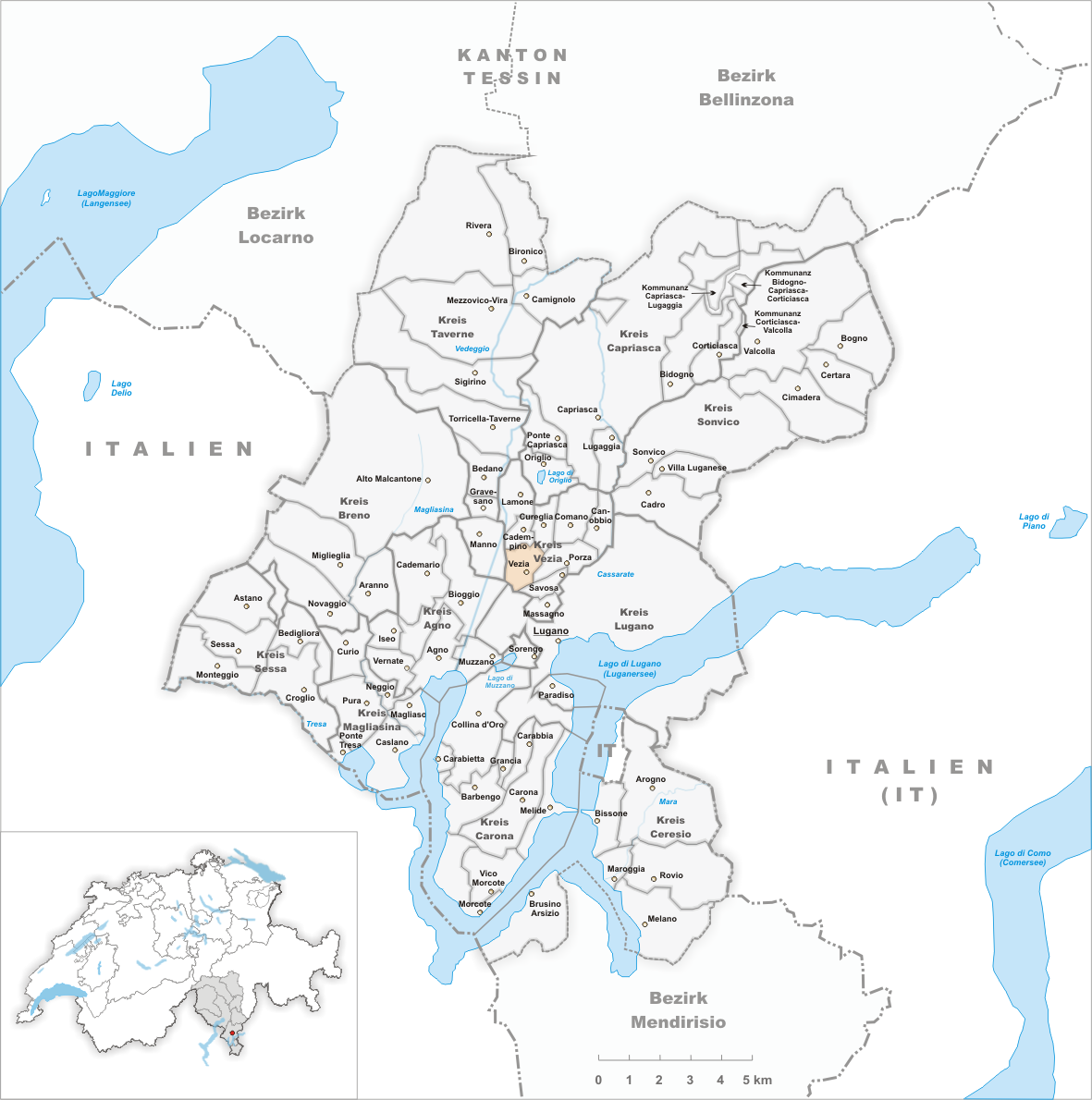 Municipality Vezia